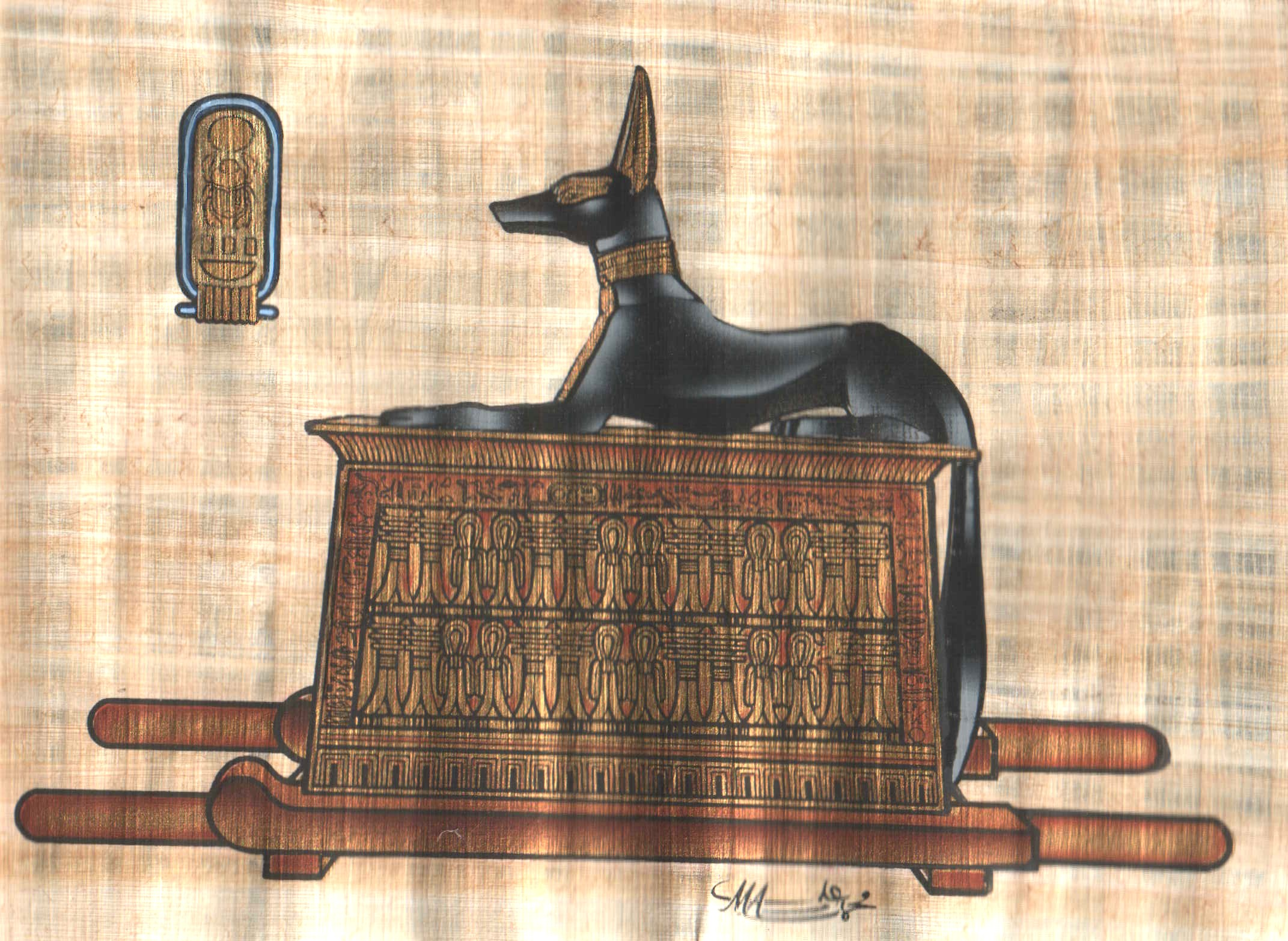 Anubis, Part of the treasure of Tut'anch Amun. Modern souvenir depiction on papyrus.